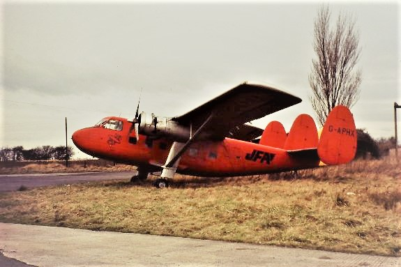 Manufacturer: Scottish Aviation Designation: Twin Pioneer Airline: Jersey Ferry Airlines Serial Number: G-APHX